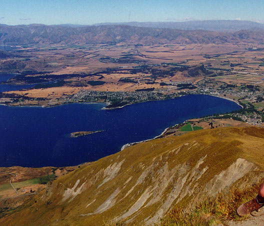 Wanaka from Mount Roy 10:54, 27 November 2004 Dramatic 528x452 (91103 bytes) (Wanaka from Mount Roy)